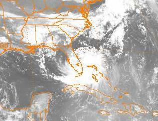 Tropical Storm Bob making landfall on Florida in July of 1985